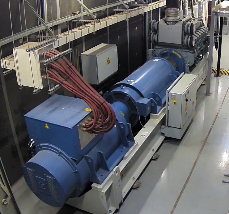 Single frame DRUPS unit with electric generator (left bottom), flywheel energy storage (center) and diesel engine (rigt top). Electrical parametres: 400V AC, 1670kVA